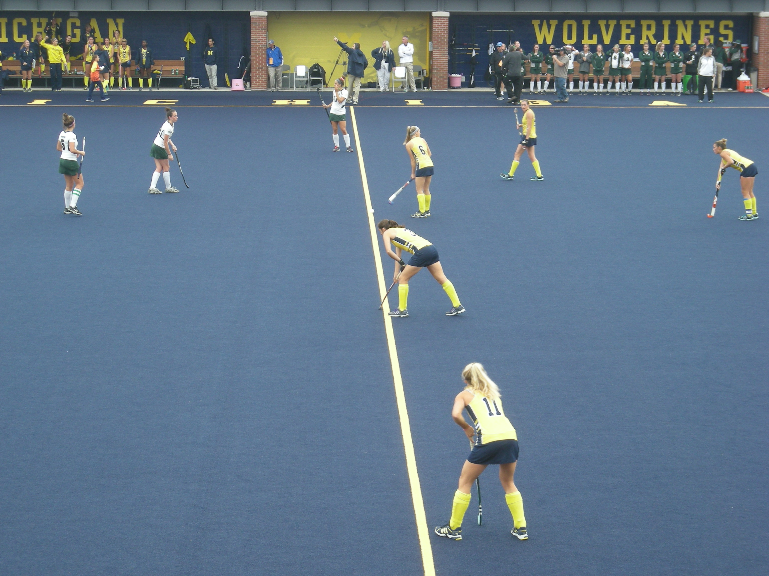 In-game action during the Michigan State Spartans vs. Michigan Wolverines field hockey game at Ocker Field in Ann Arbor, Michigan (United States). Michigan State won 2–1.